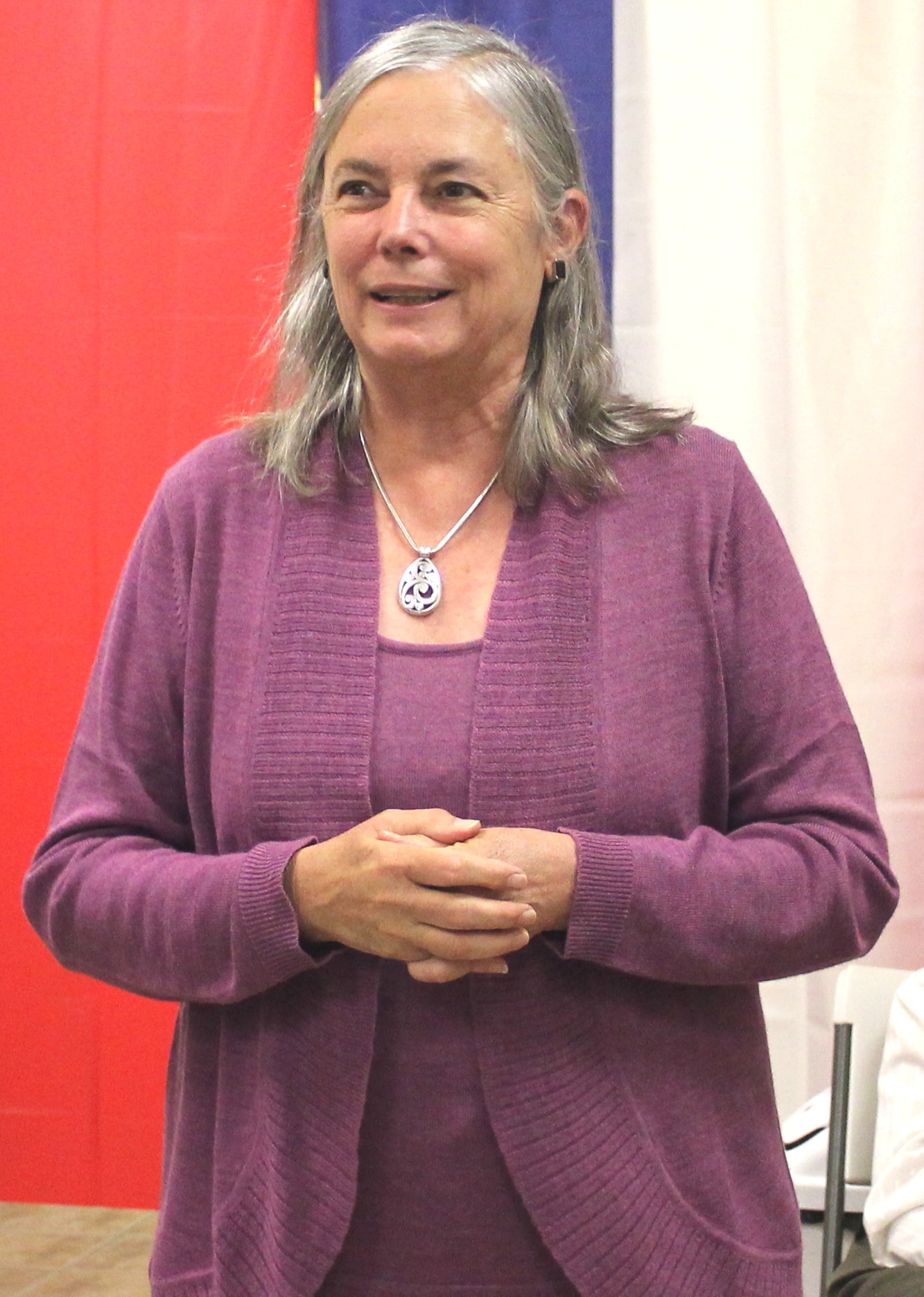 California State Senator Fran Pavley.